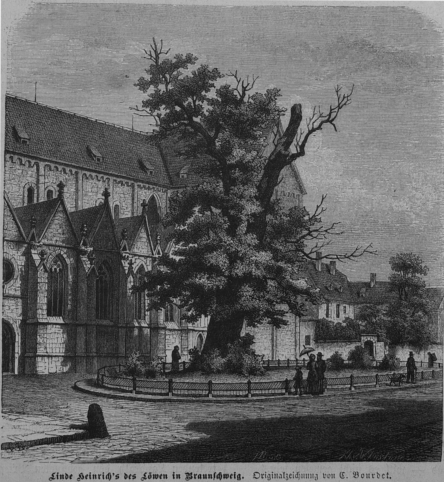 caption: "Linde Heinrich’s des Löwen in Braunschweig. Originalzeichnung von C. Bourdet."